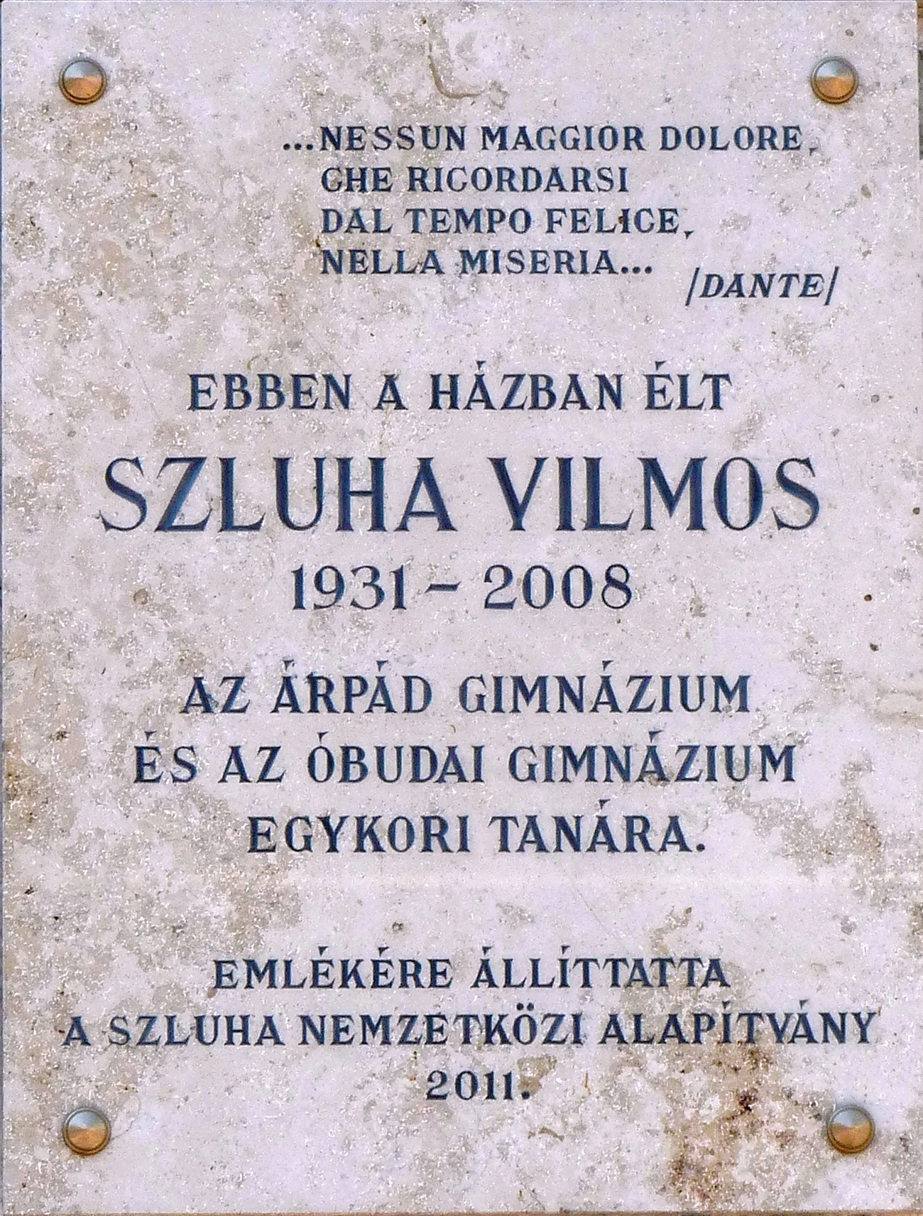 Vilmos Szluha commemorative plaque in Budapest District III, Pacsirtamező Street No 22/b.